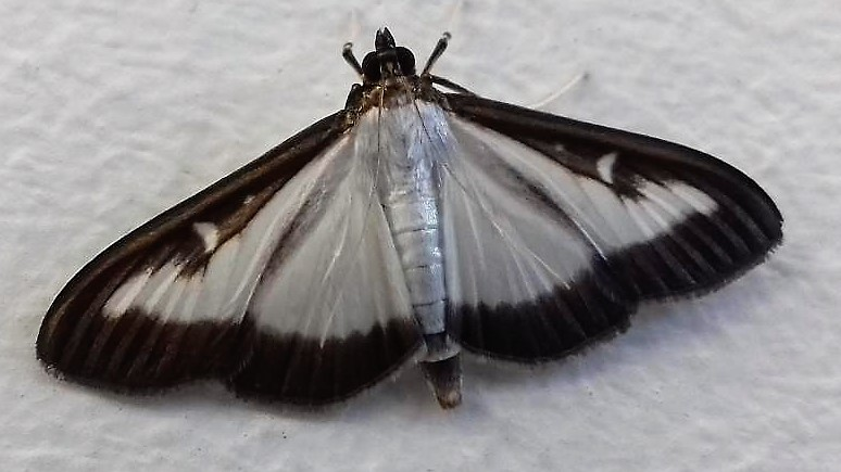 Box tree moth (Cydalima perspectalis) in London, England.